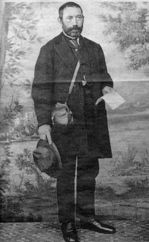 Fernando de Castro photography